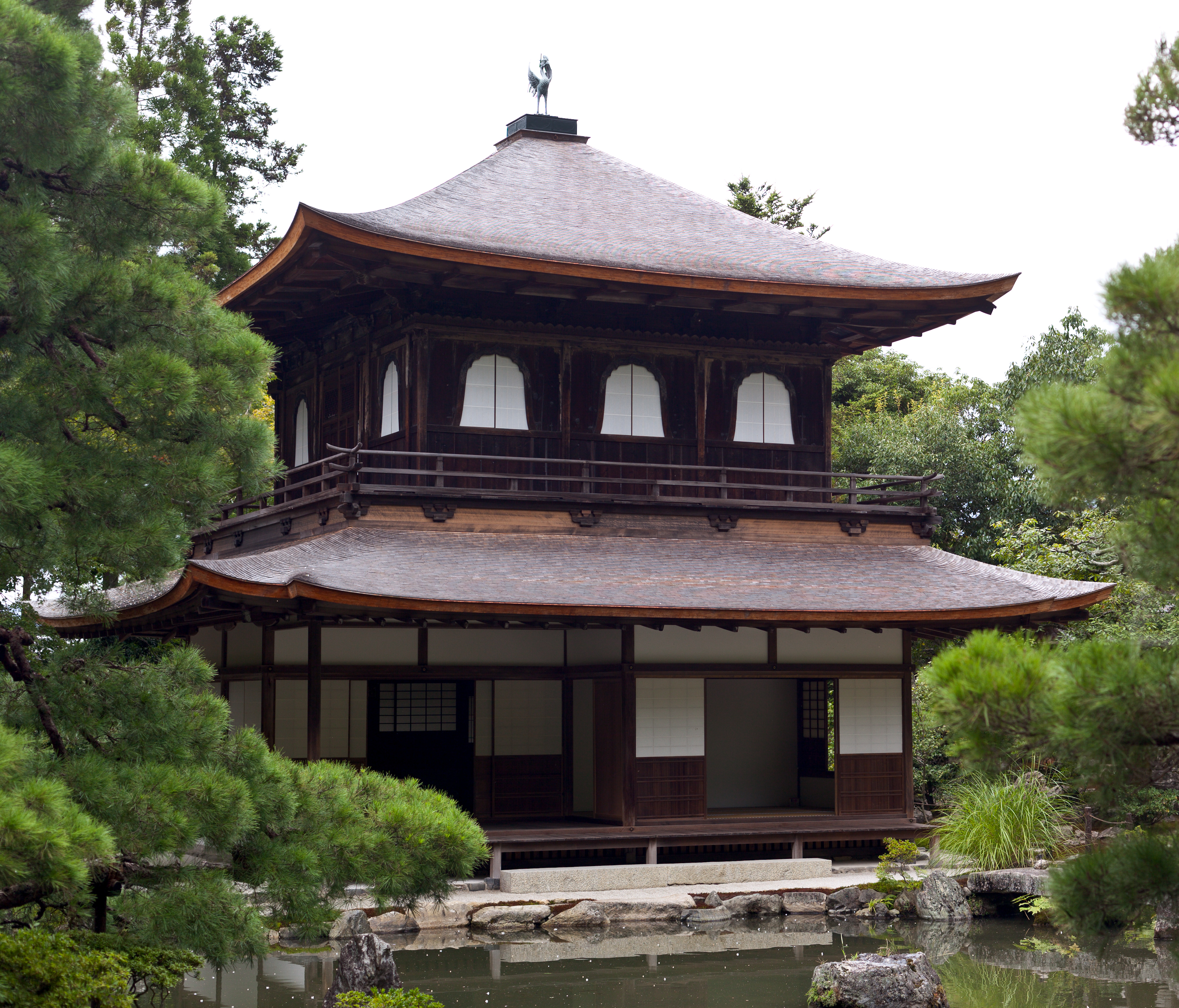 Silver Pavilion (銀閣, Ginkaku) at Ginkaku-ji after being restored in 2008; a national treasure in the category residences